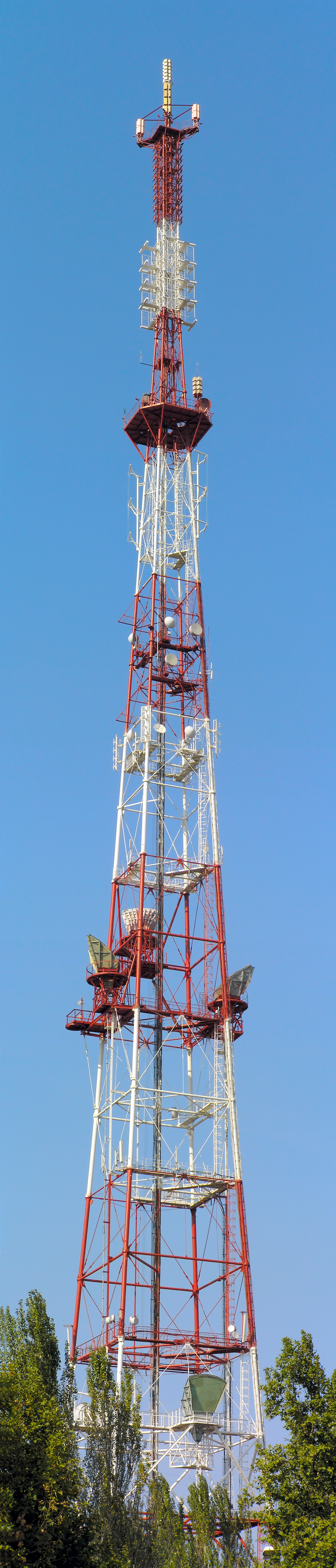 Television tower in Mykolaiv, Ukraine.